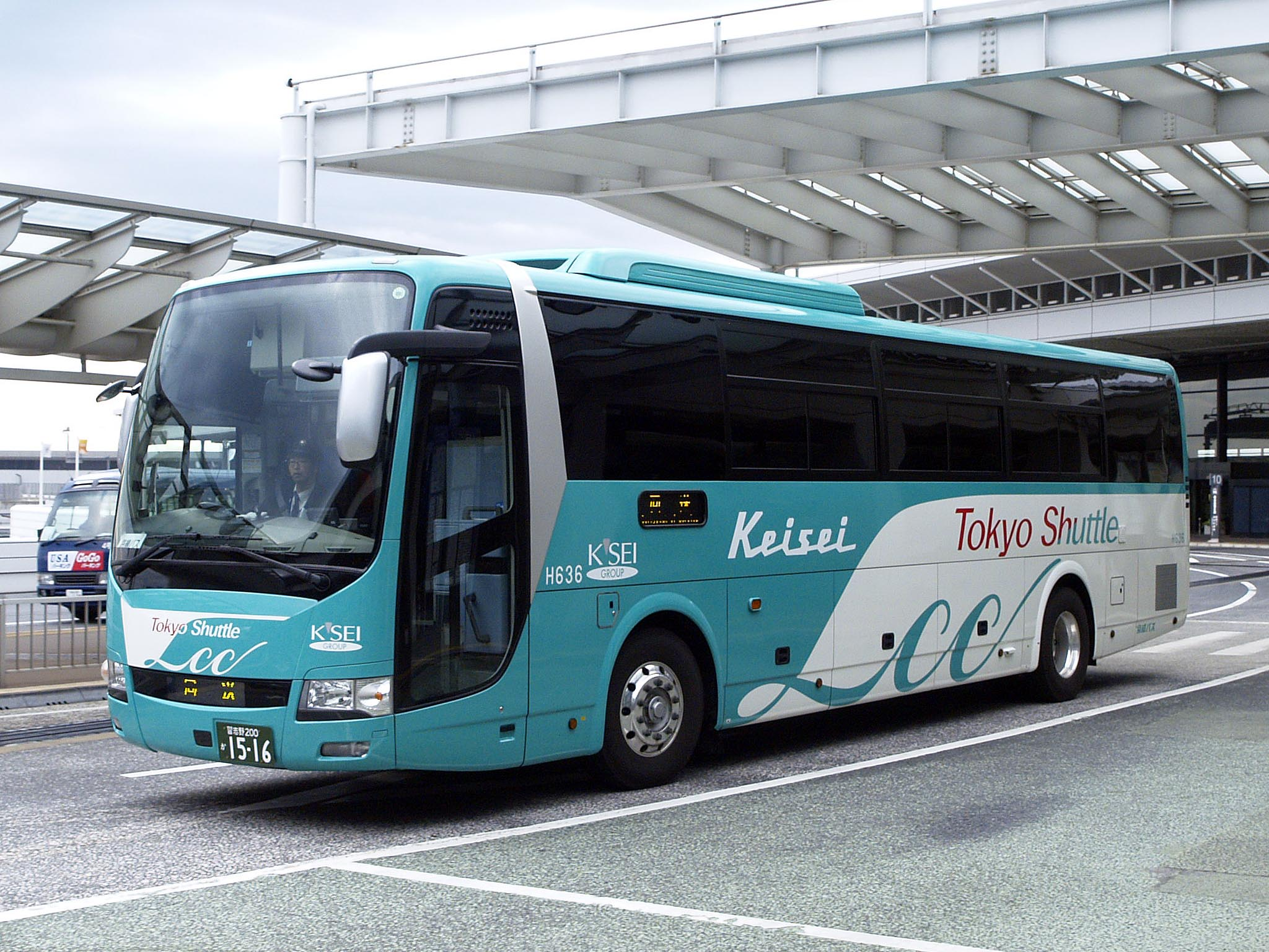 Fleet of Keisei Bus, for Narita Airport Shuttle "Tokyo Shuttle". Model: Mitsubishi Fuso Aero Ace QRG-MS96VP License plate: CBN200 KA1516 Place: Narita International Airport